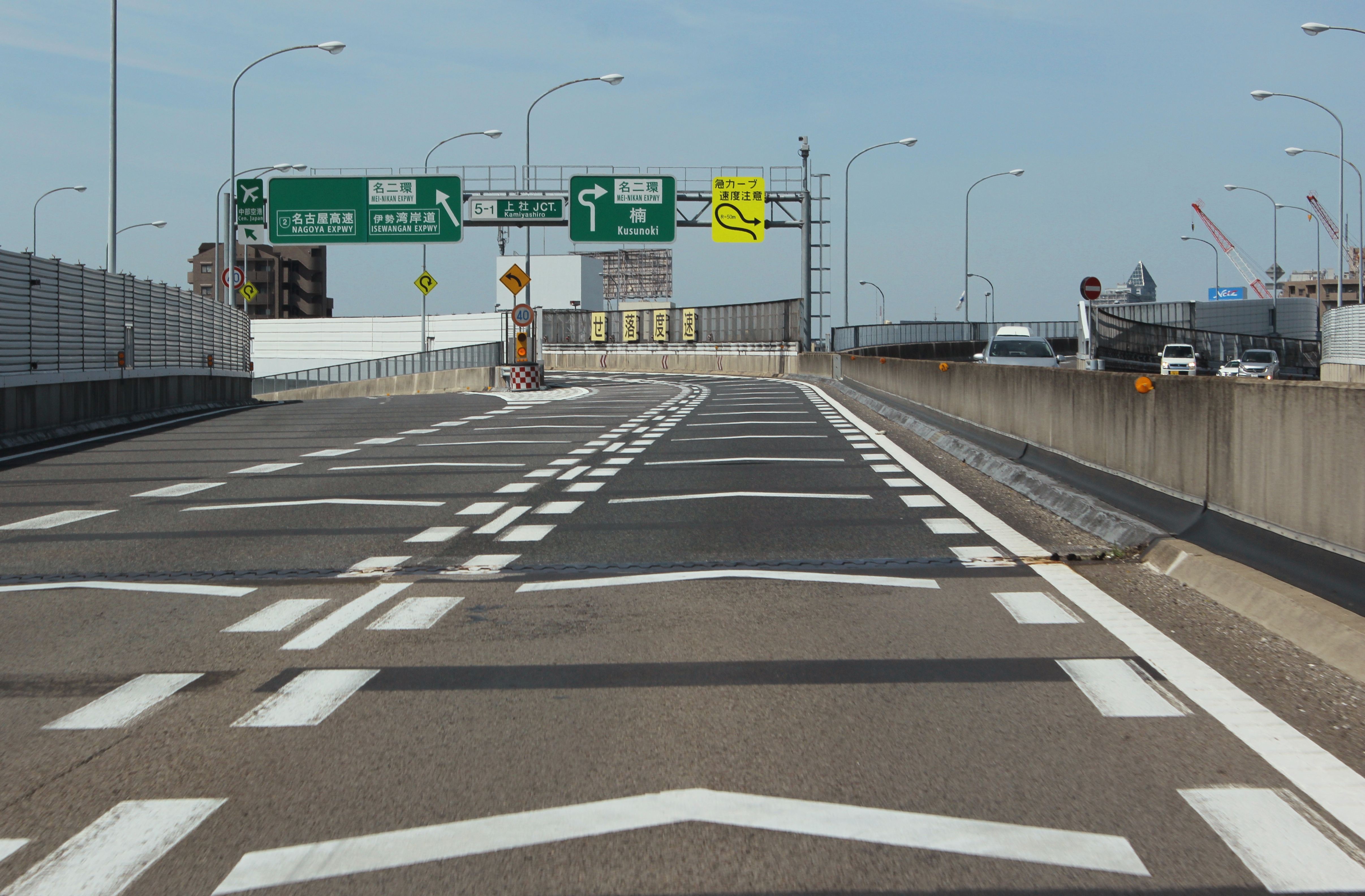 Kamiyashiro Junction on the Nagoya-Daini-Kanjo (Meinikan) Expressway